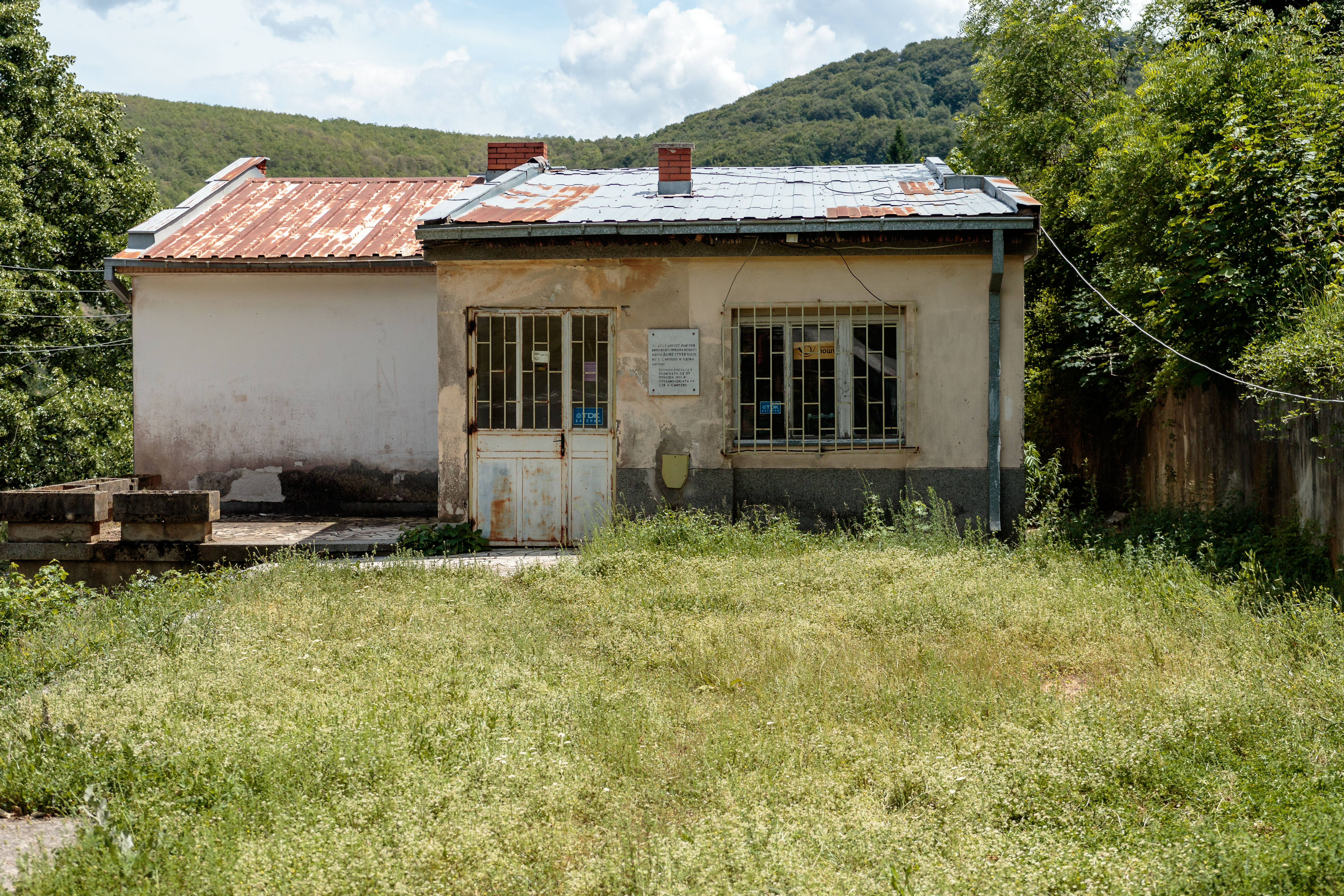 Old post office in the village Smilevo